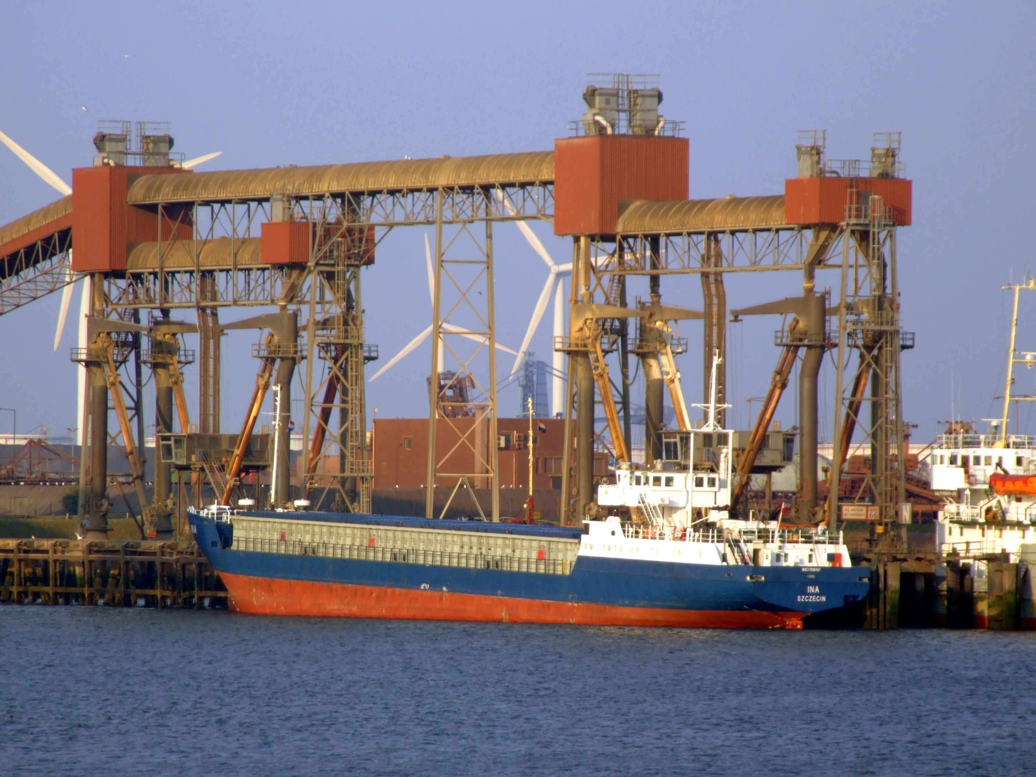 Photographed at the Port of Rotterdam, the Netherlands.